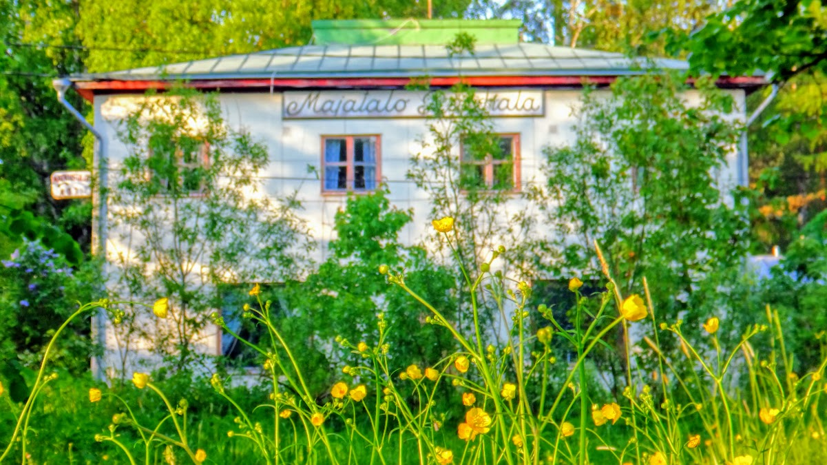 This is a living museum in Kouvola Finland. Travellers can enjoy here the lifestyle of the 20 th century